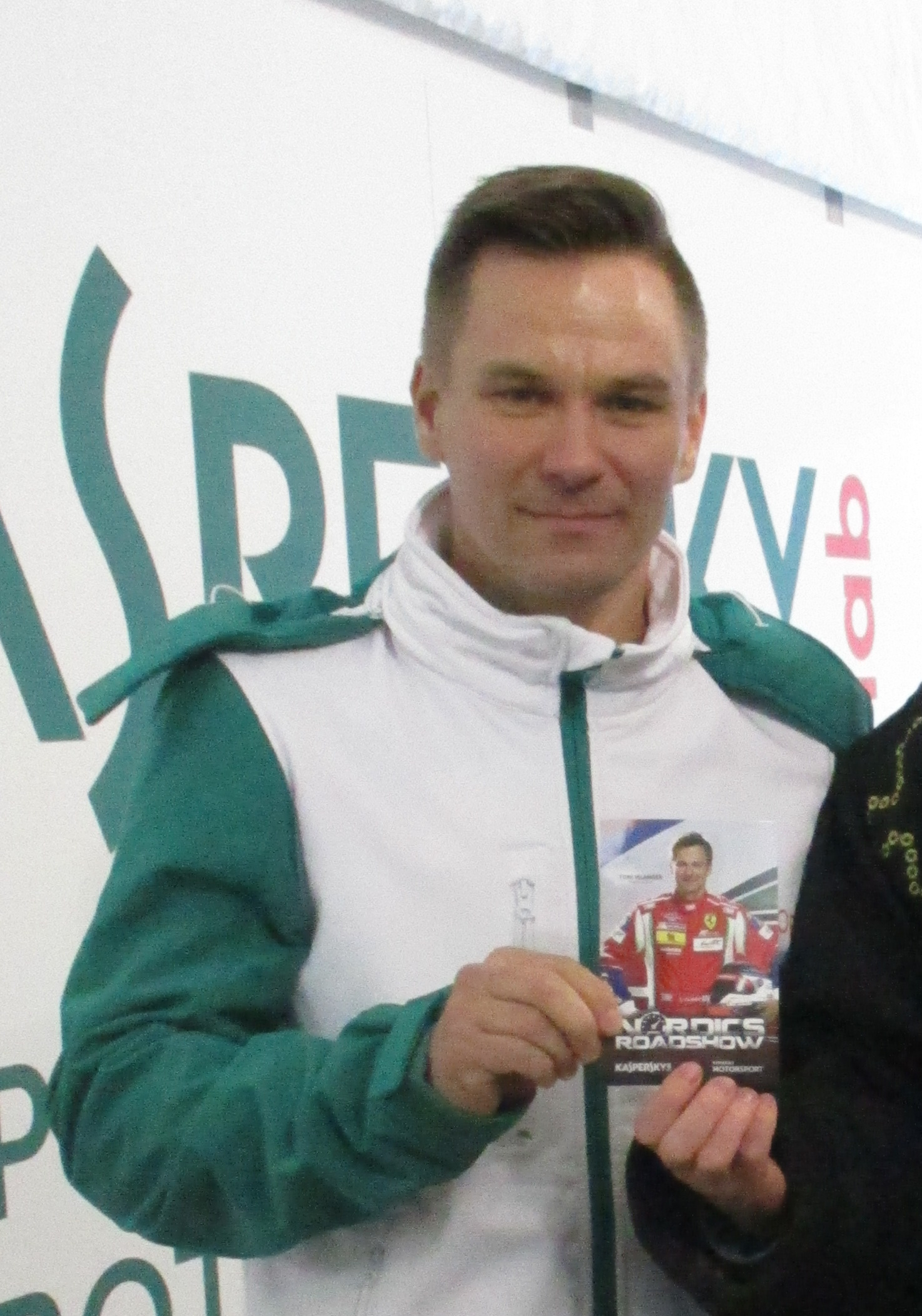 Toni Vilander at Kaspersky Lab Nordic Roadshow at Narinkka Square in Helsinki on 8th of November 2016.